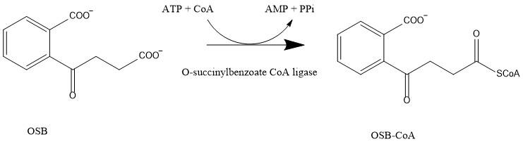 A ChemDraw illustration of MenE